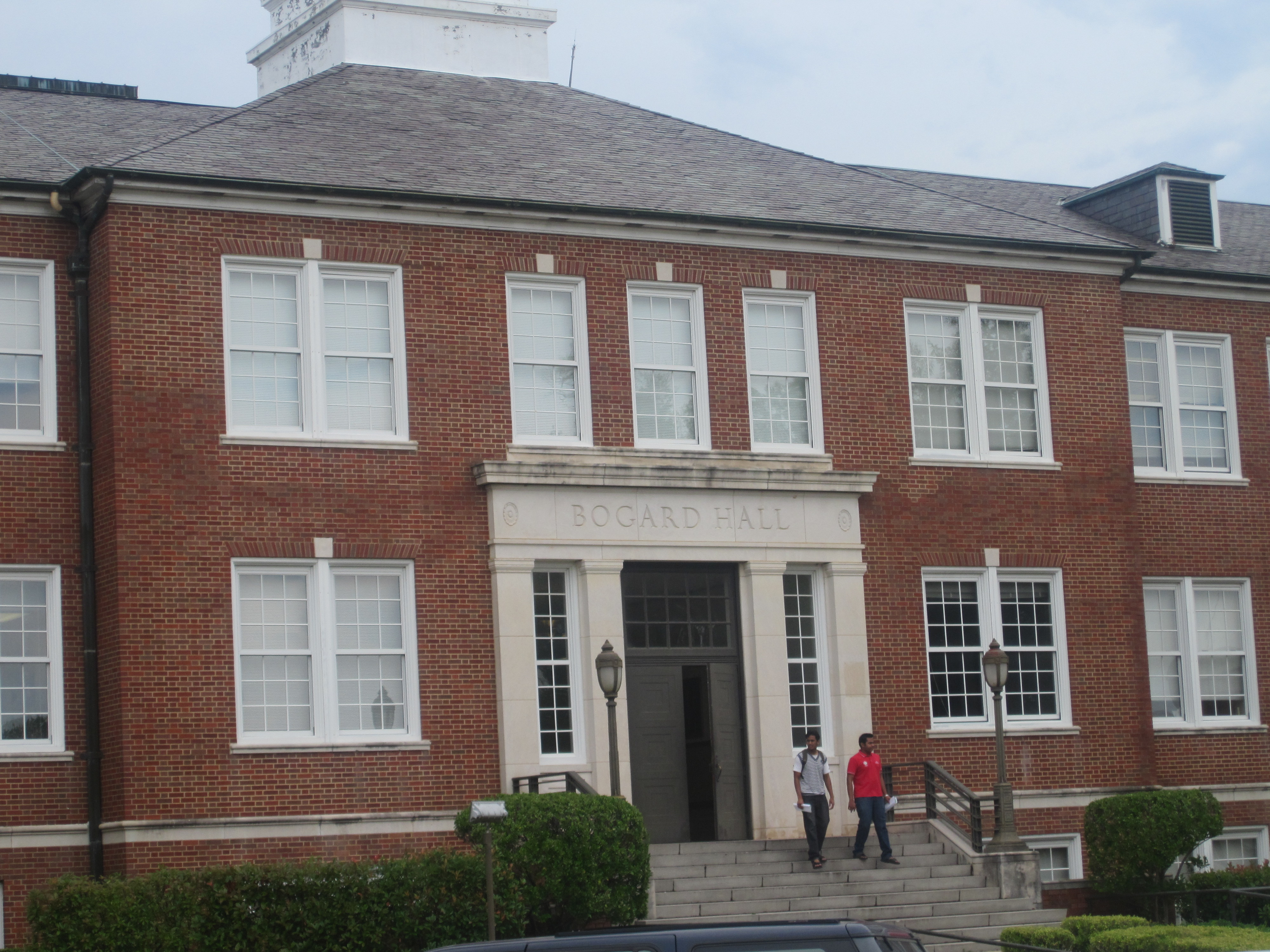 I took photo with Canon camera.